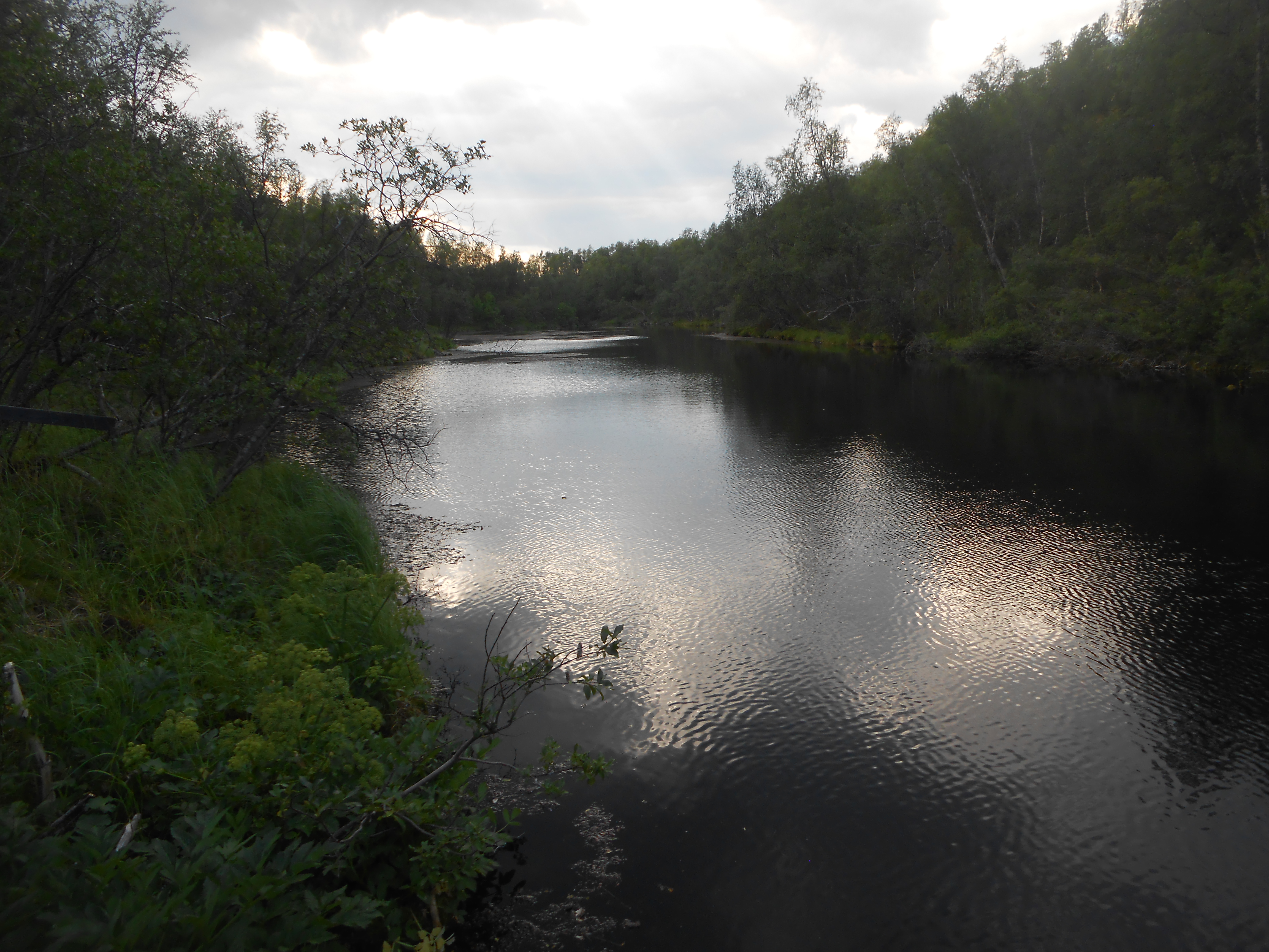 Sulaoja, a water spring in Utsjoki, Finland.